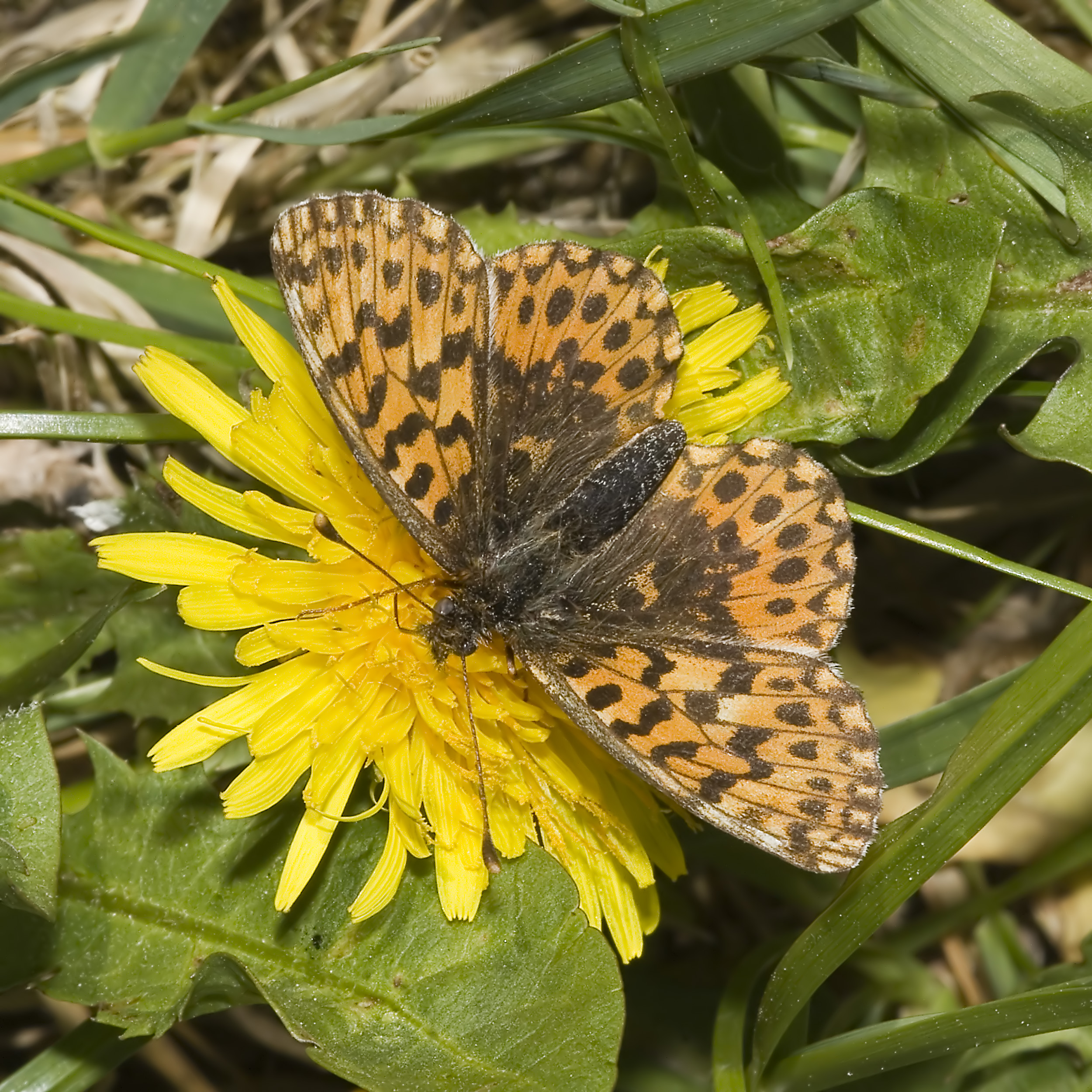 Weaver's Fritillary